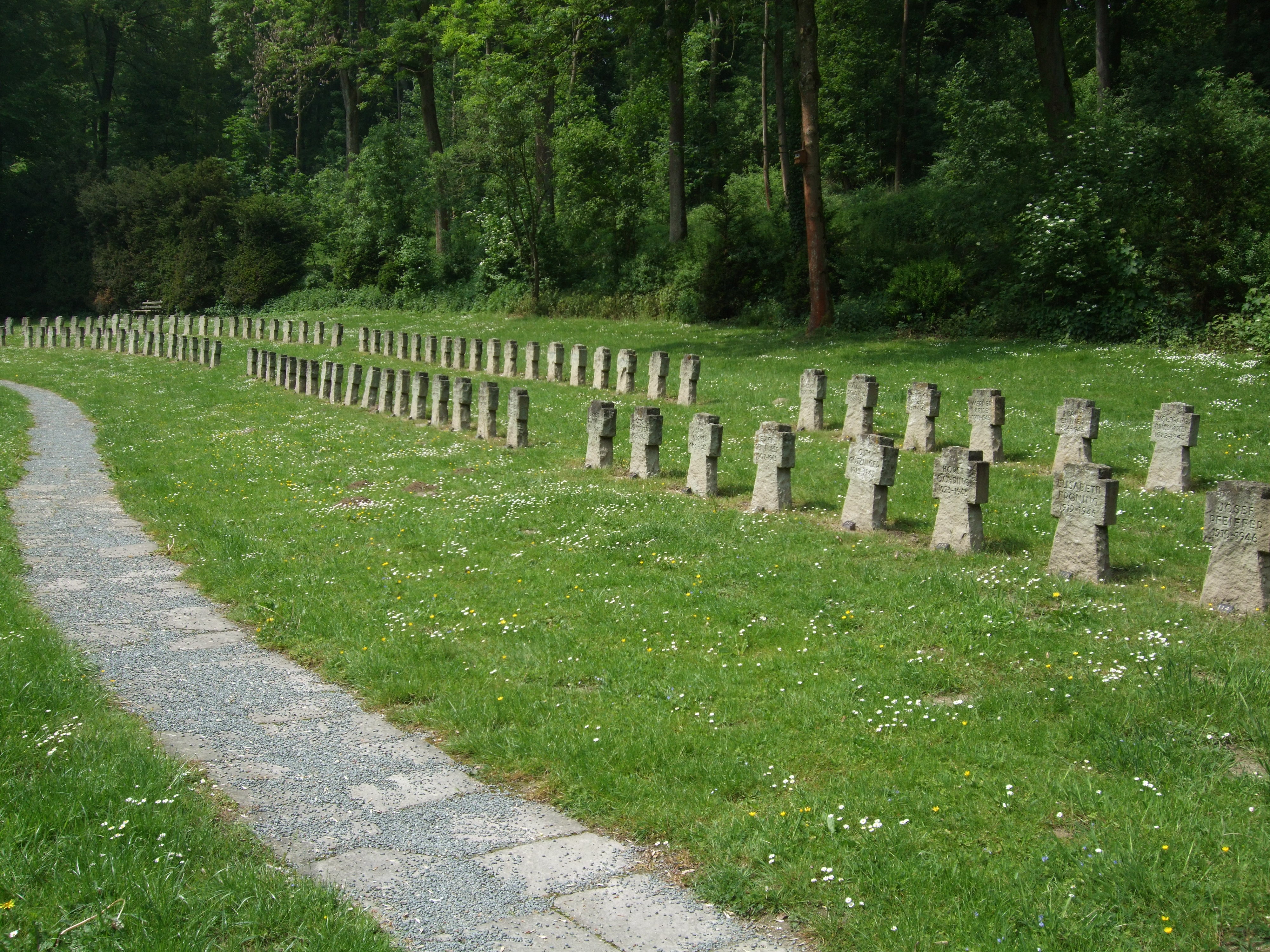 Soldatenfriedhof Böddeken, near Wewelsburg, Büren, Germany. Cemetry for soldiers fallen in the last days of Second World War.